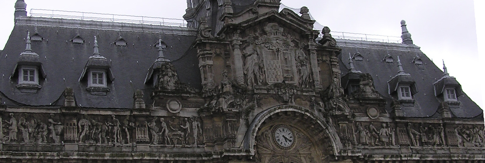 Detail of the city hall's front in Roubaix, France